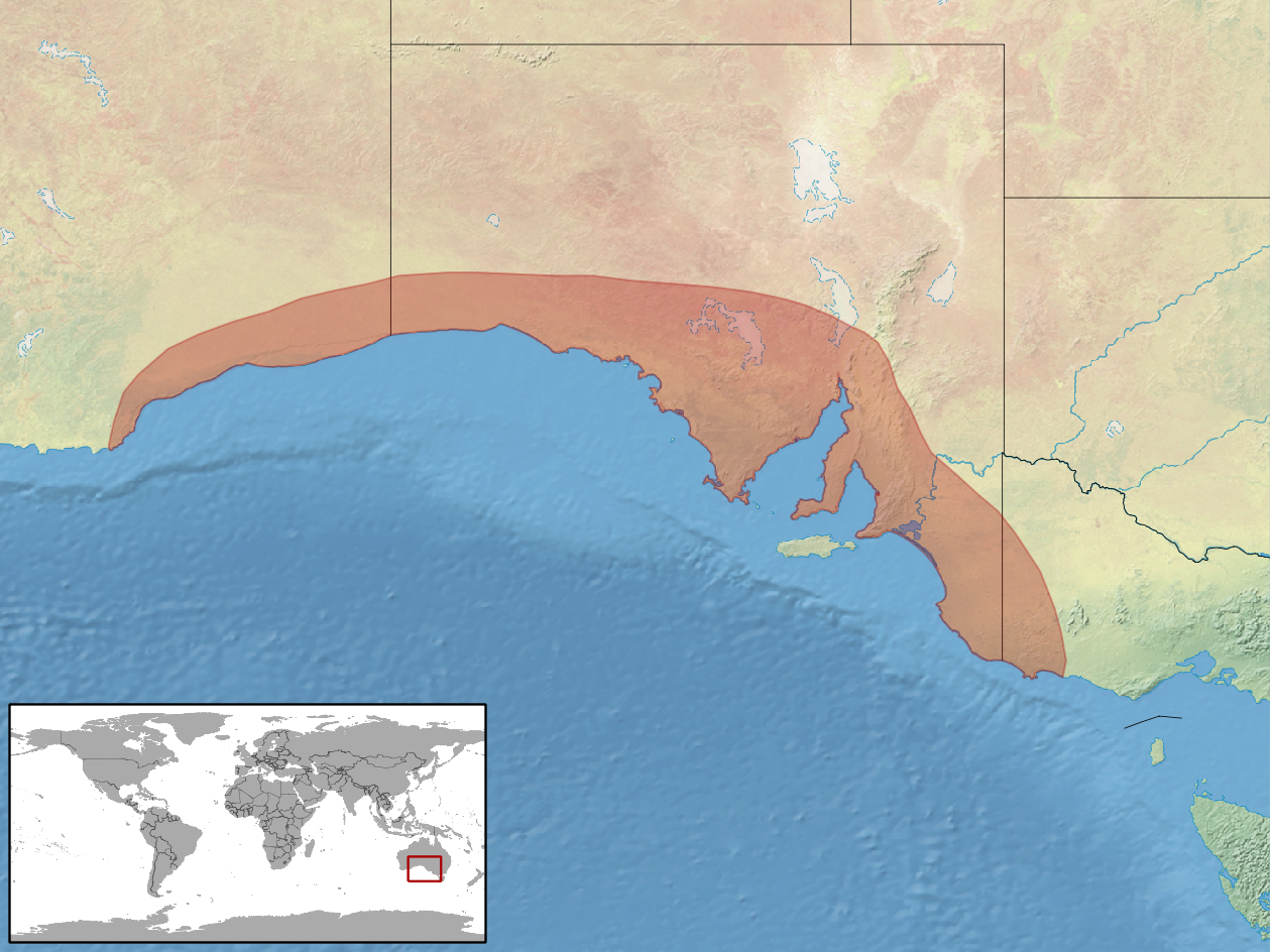 geographic distribution of Amphibolurus norrisi. (Native: Australia (South Australia, Victoria, Western Australia))